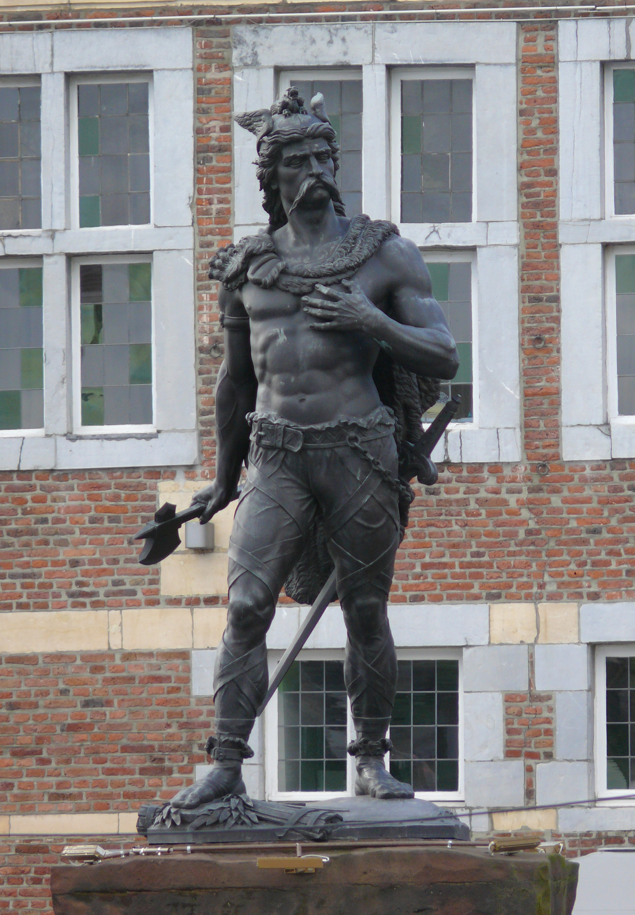 Jules Bertin's Statue of Ambiorix in Tongeren (Belgium).